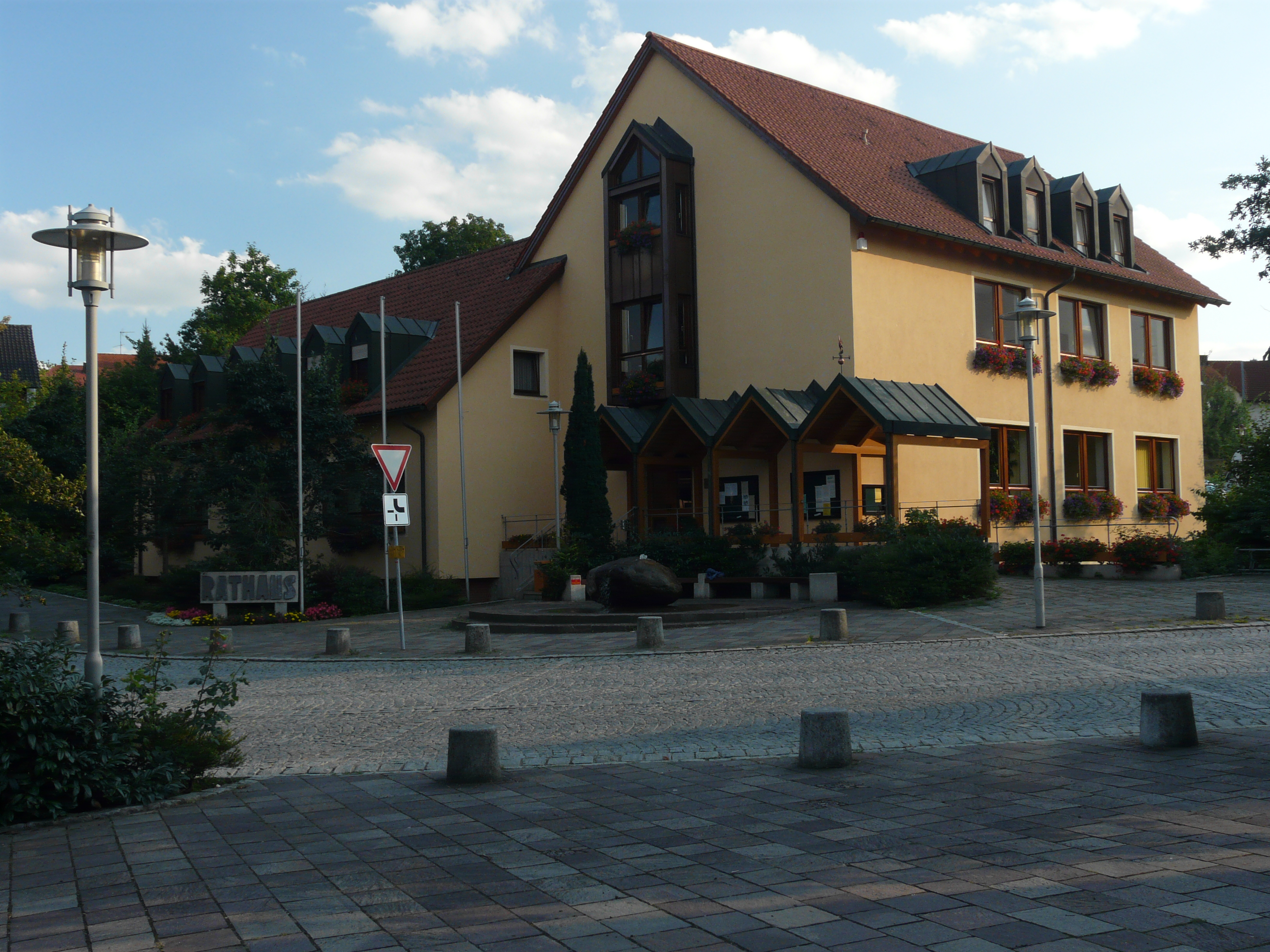 The town hall of Burgthann (Middle Franconia, Bavaria, Germany).